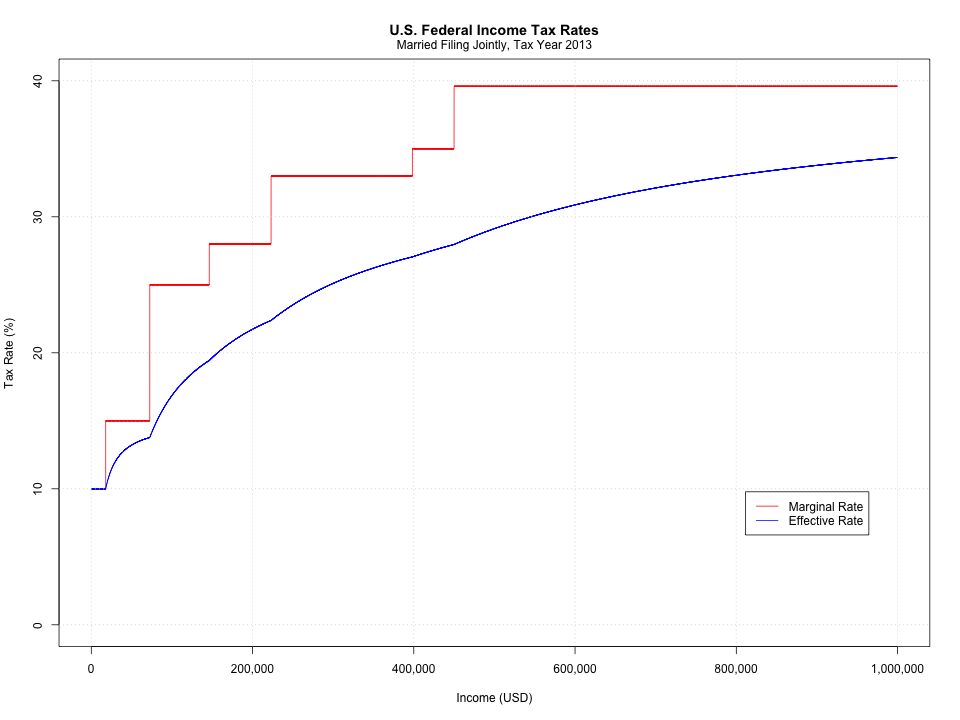 Figure showing marginal and effective income tax rates in the United States for married couple filing jointly in 2013.